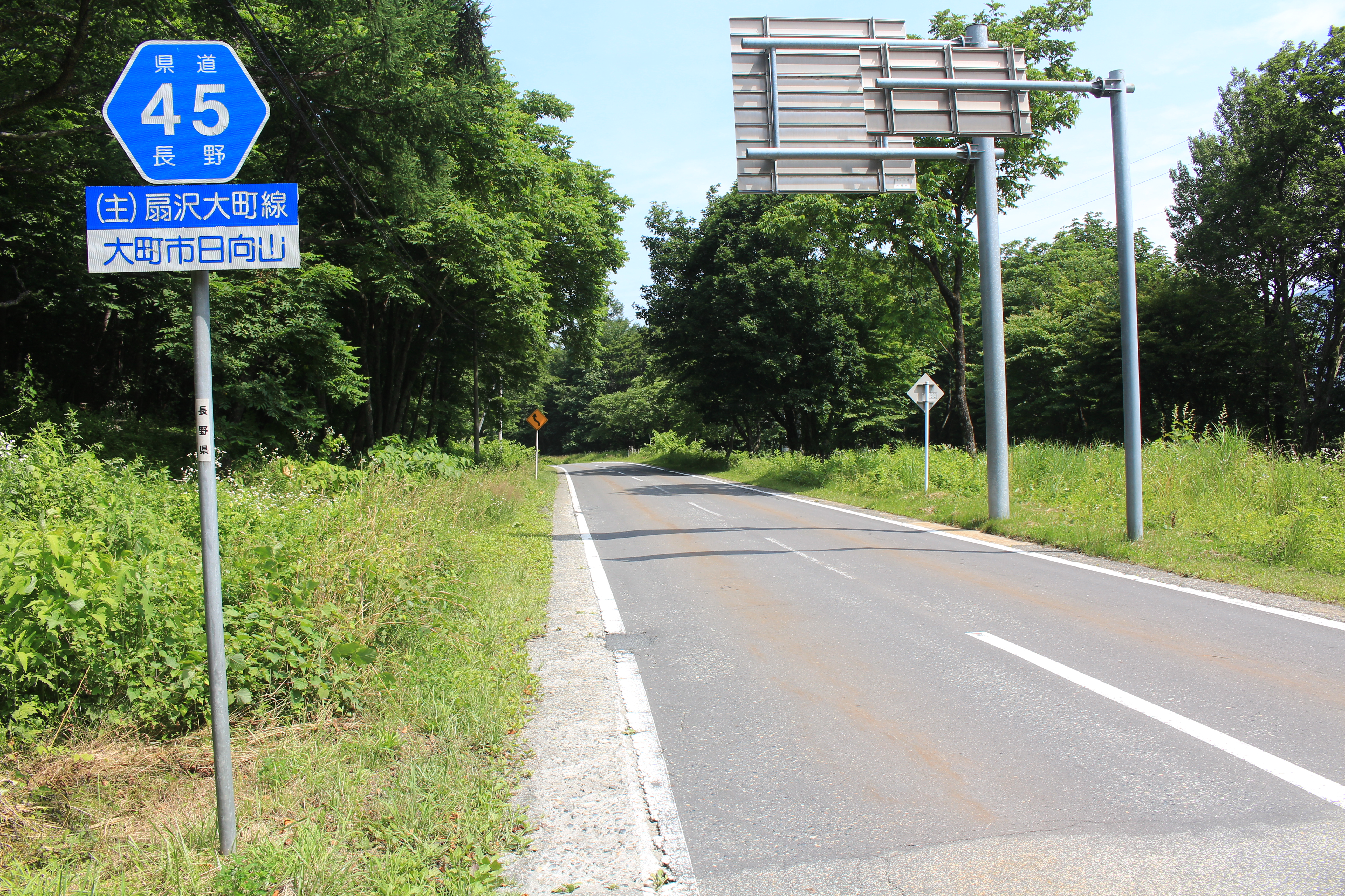 Nagano Prefectural Road Route 45, Ōmachi, Nagano prefecture, Japan.